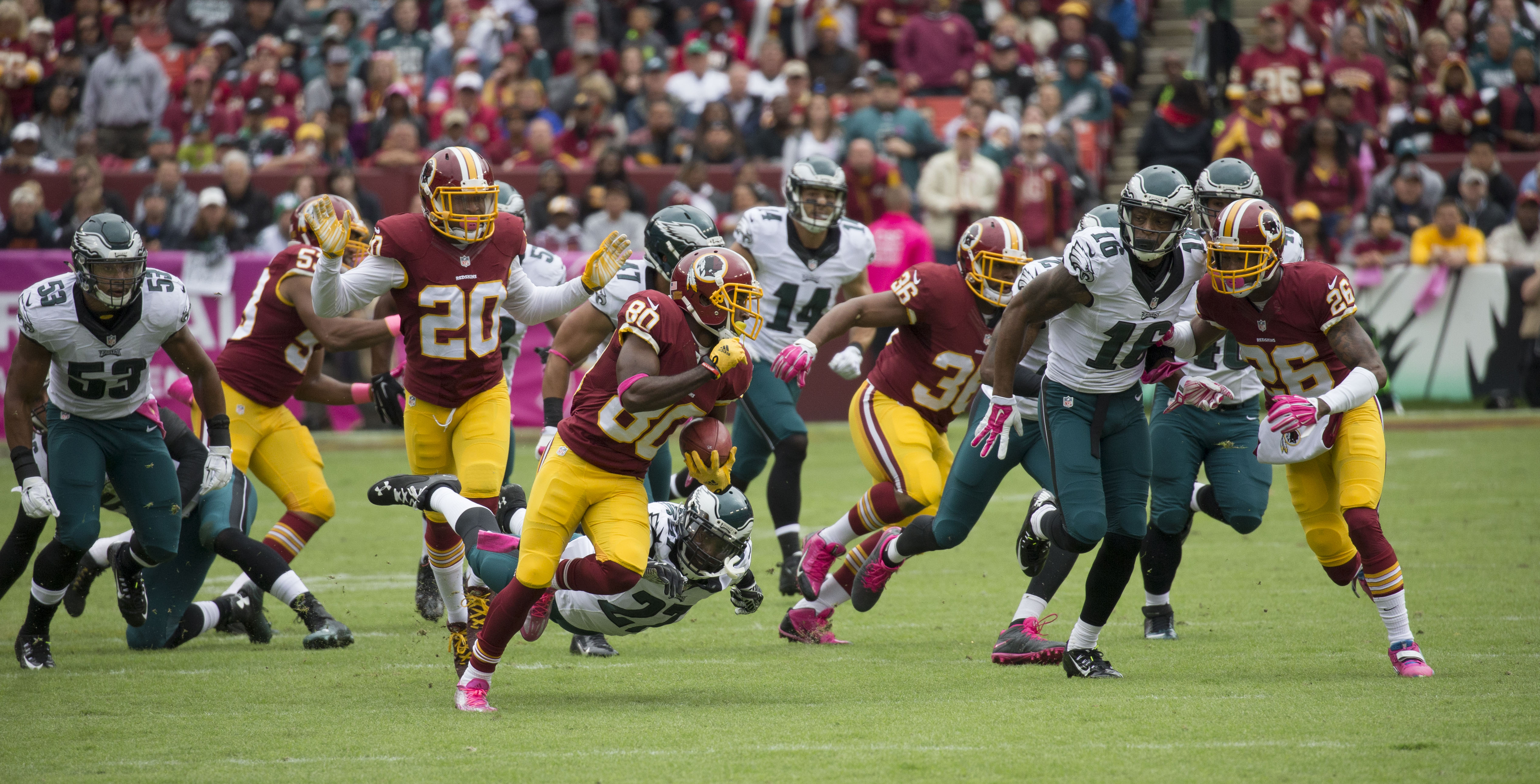 Eagles at Redskins 10/04/15